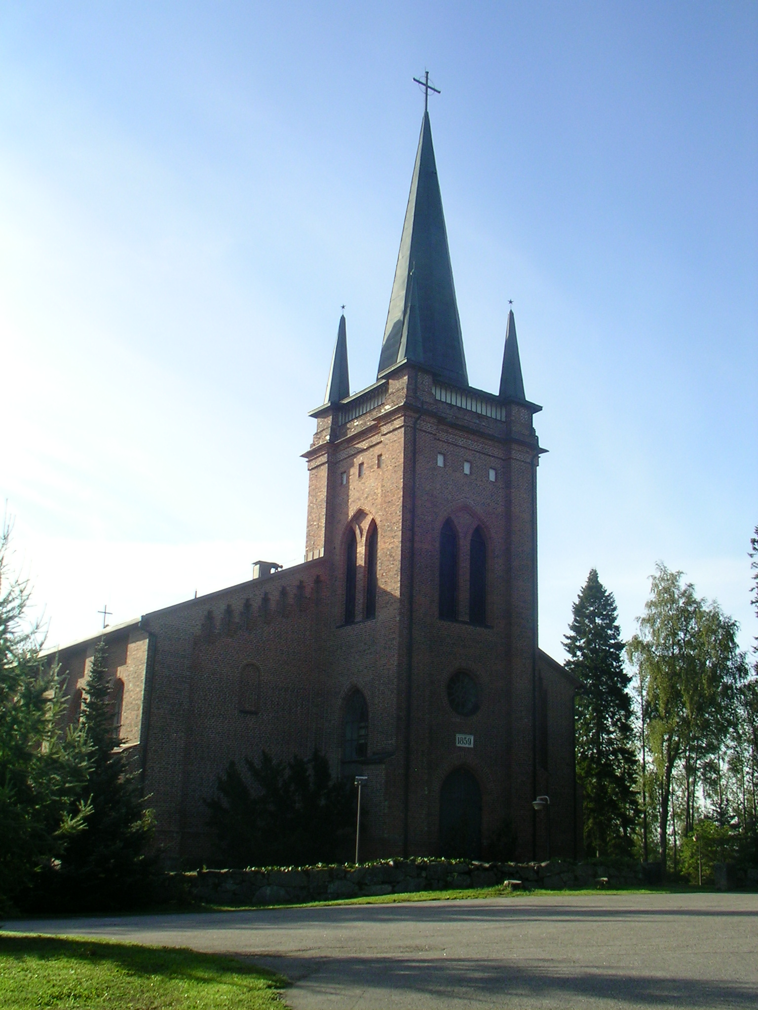 The (luhteran) church in Somero, Finland.